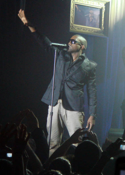 Kanye West at concert, edited verson of